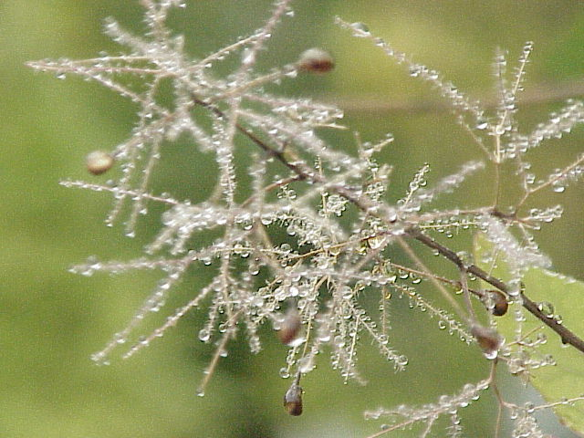 Species: Cotinus coggygria Family: Anacardiaceae Image No. 1